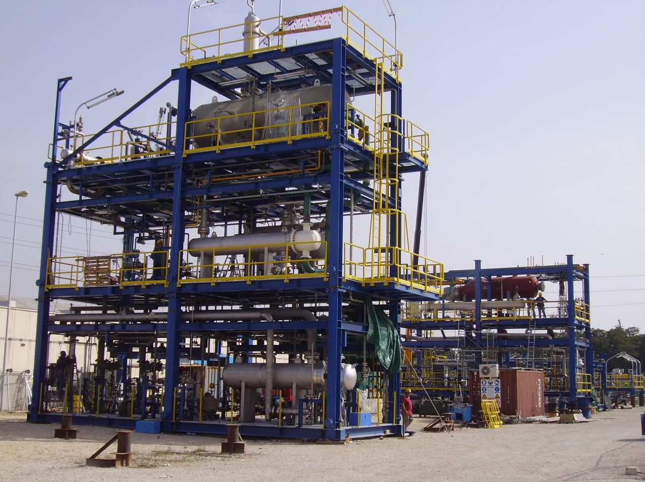 Modular chemical plant under construction